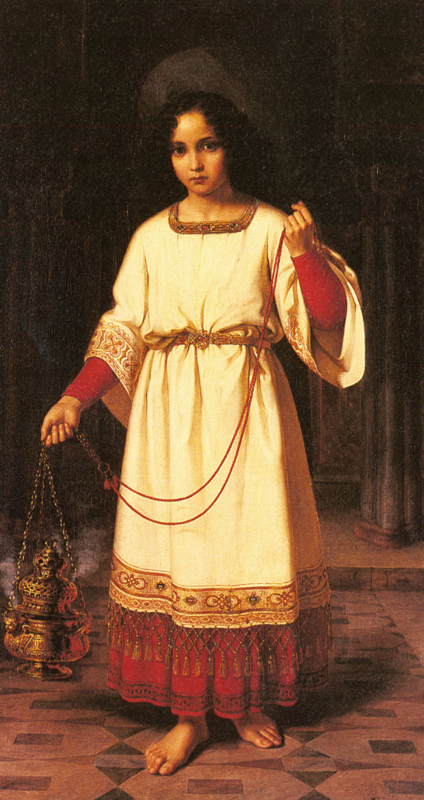 The Acolyte